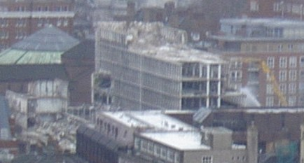 Northernmost tower, Marsham Towers, undergoing demolition on January 30, 2003. Taken by User:Fys.